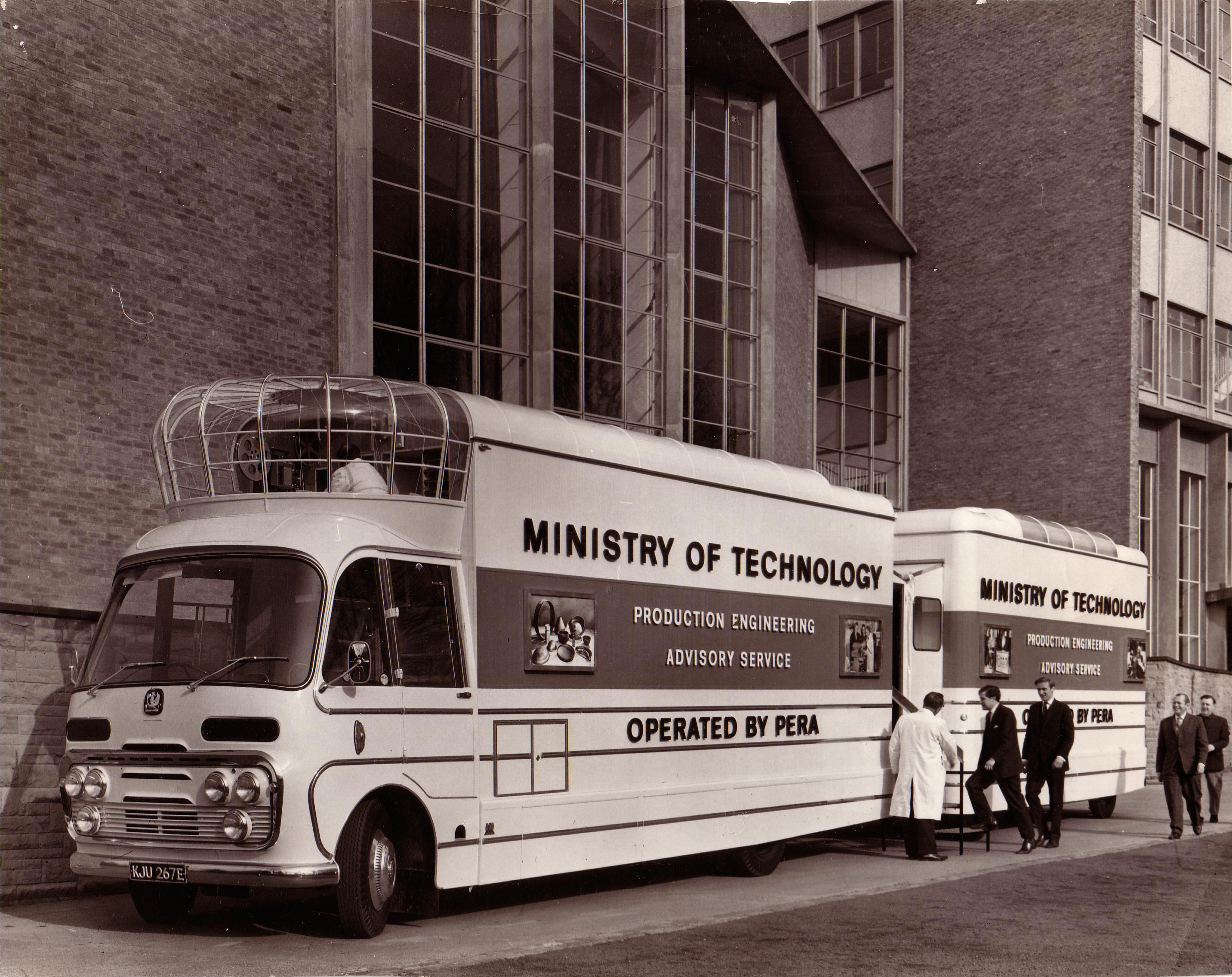 1967 Mobile Cinema, PERA, Ministry of Technology, Tony Benn, Harold Wilson, Bedford, Plaxton, Coventry Steel Caravans